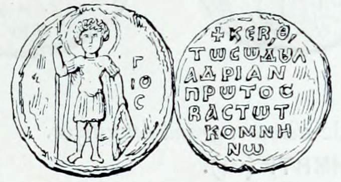 Seal of the protosebastos Adrianos Komnenos